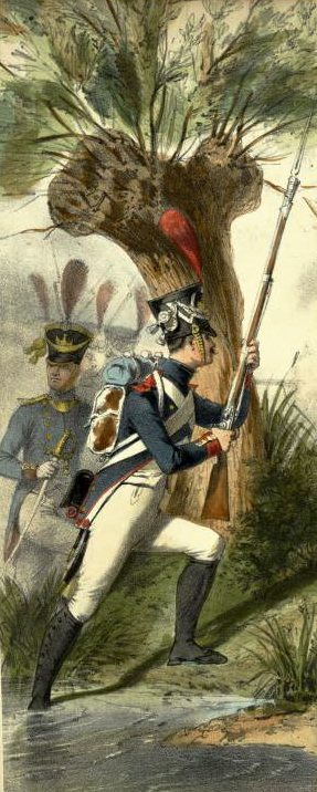 Soldiers from the Conscrits-Grenadiers Young Guard regiment in action during the War of the Fifth Coalition in 1809.